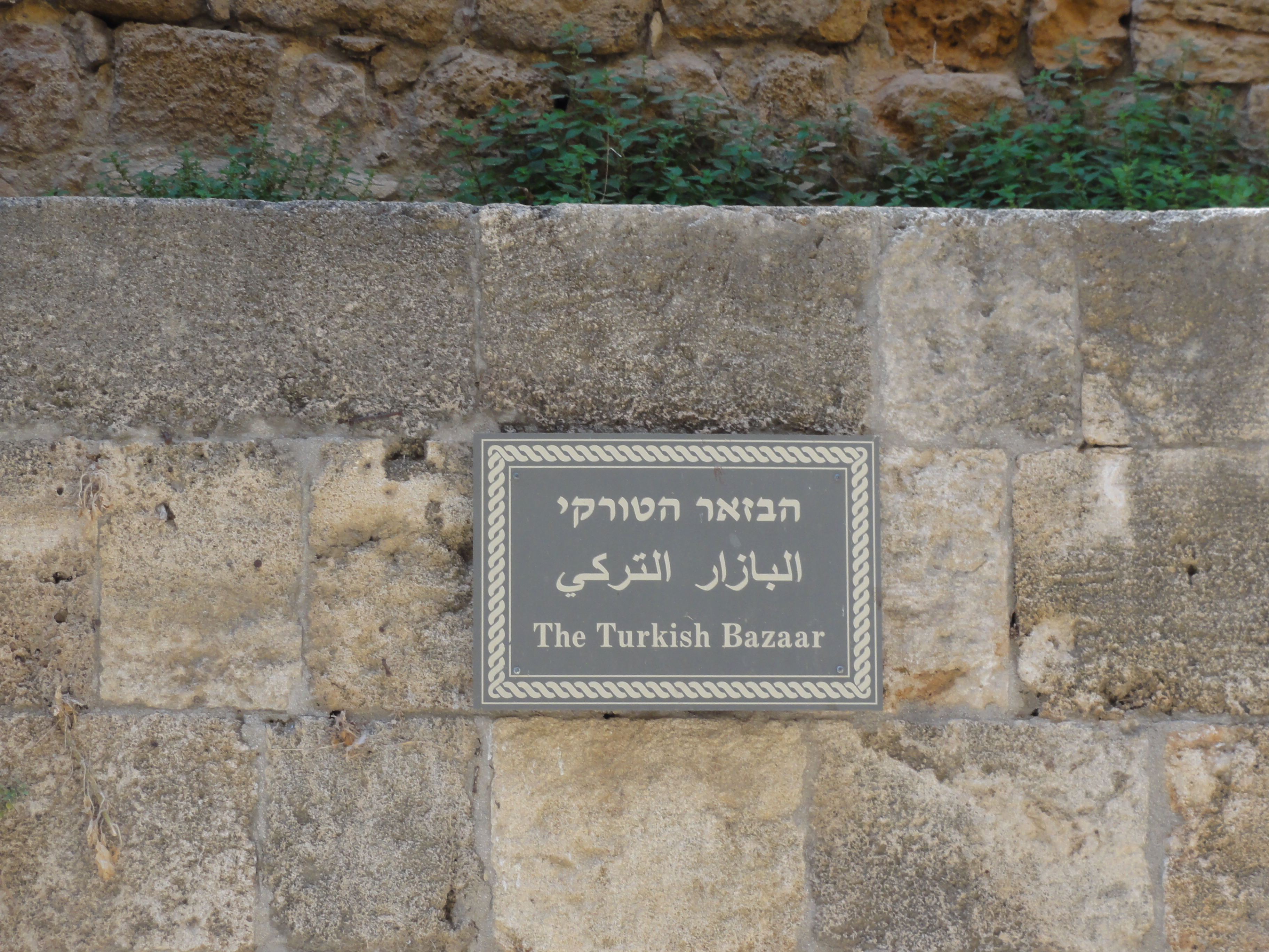 Sign "The Turkish Bazaar", Akko, Israel. Turkish bazaar or Al-Jazzar bazaar.